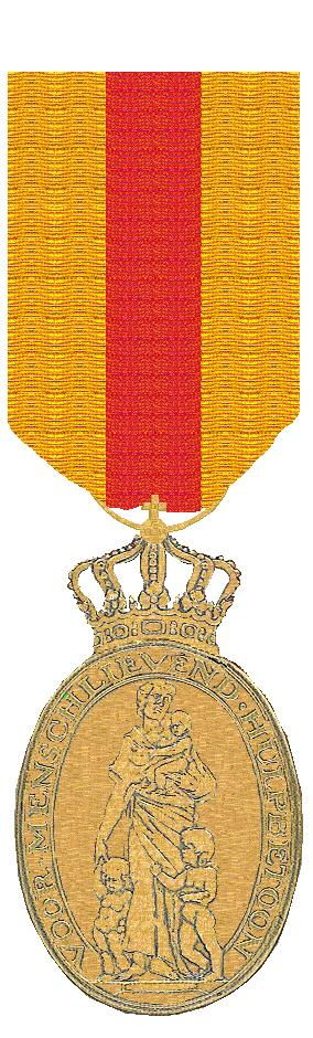 Honorary Medal for Charitable Assistance